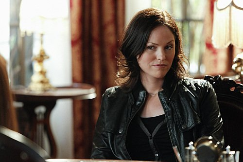 Sara Sidle - Unleashed. 11.19